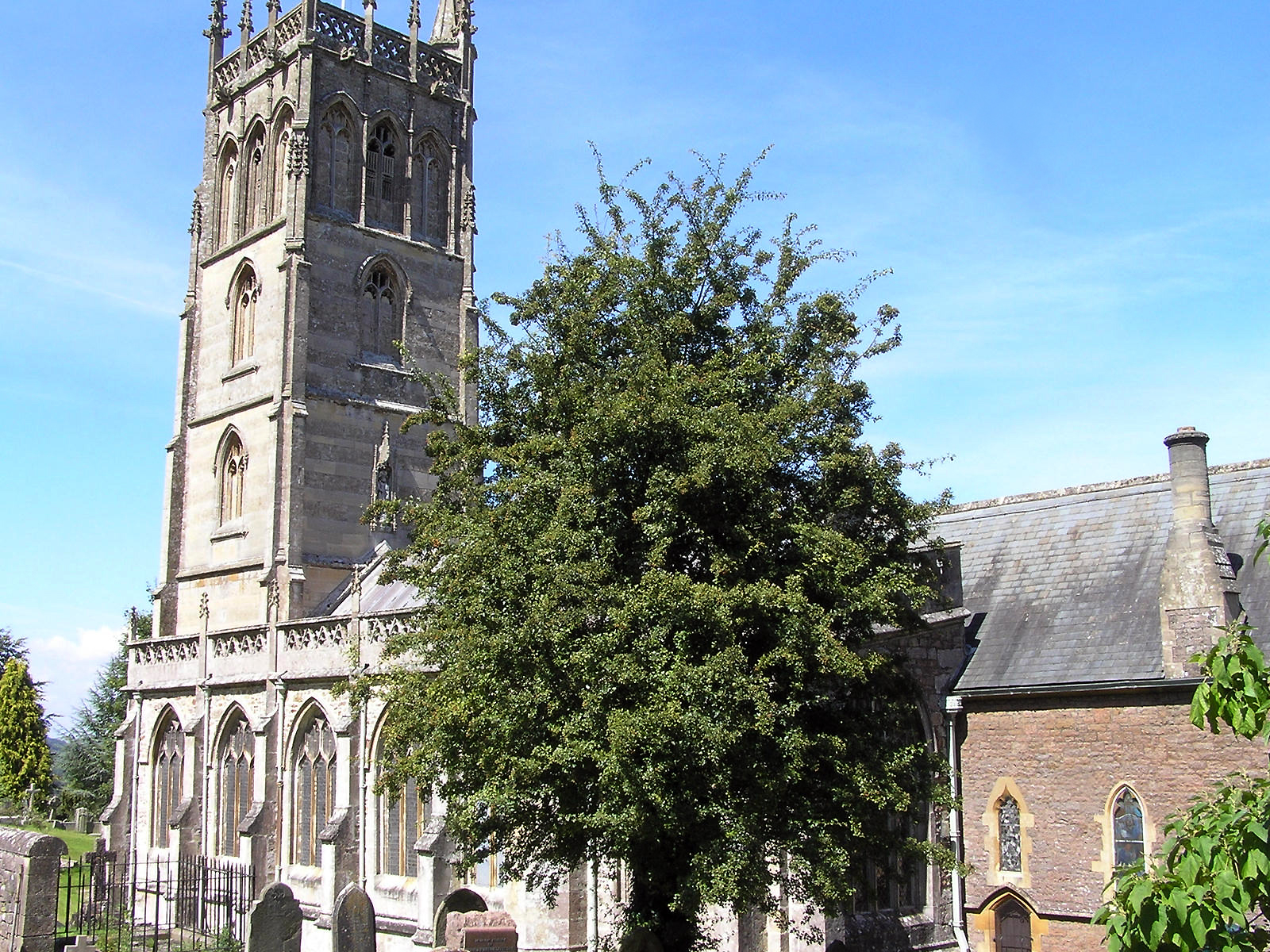 St James the Great parish church, Winscombe, Somerset, seen from the southeast